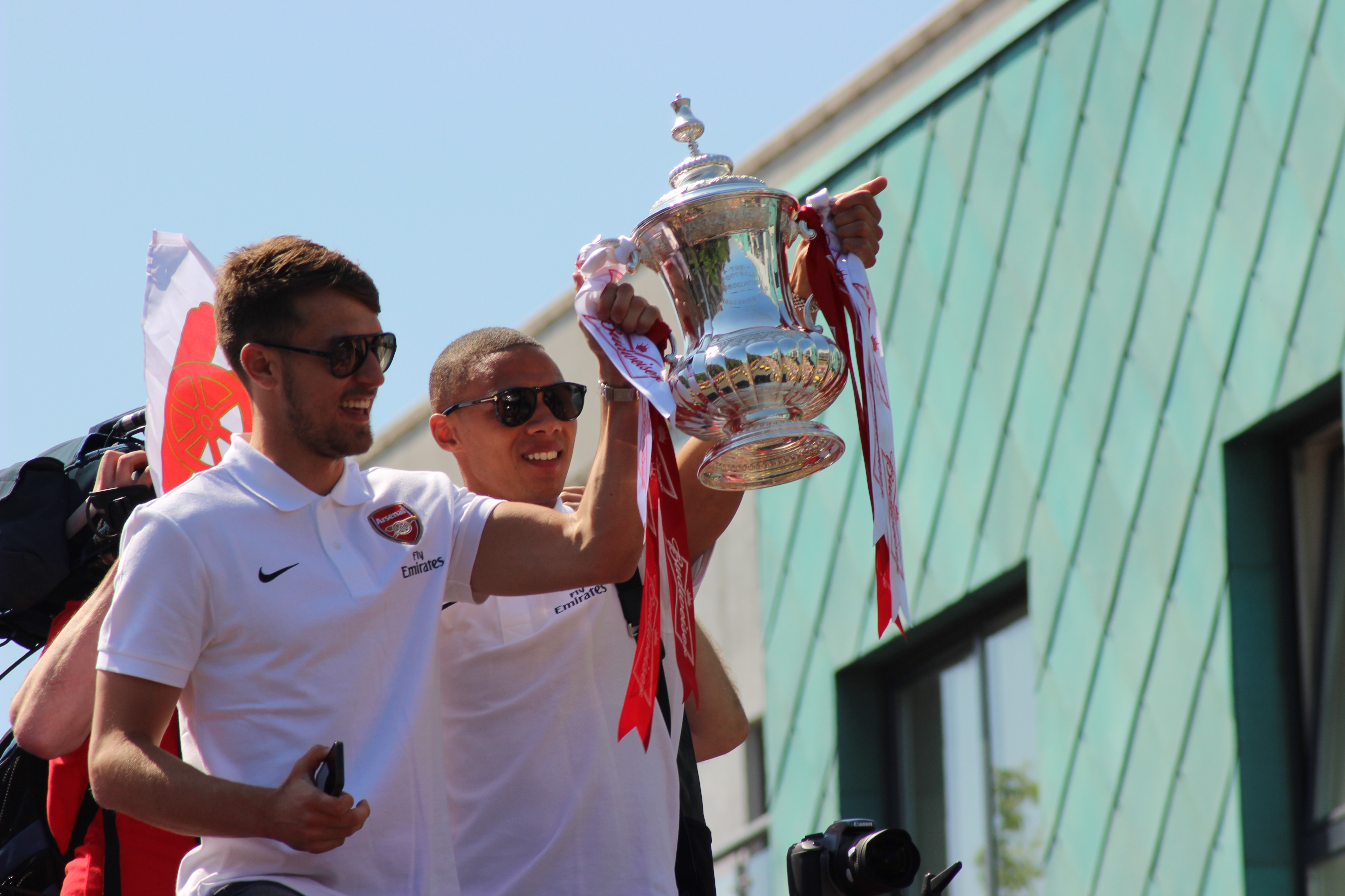 Aaron Ramsey and Kieran Gibbs of Arsenal present the FA cup to the adoring fans below